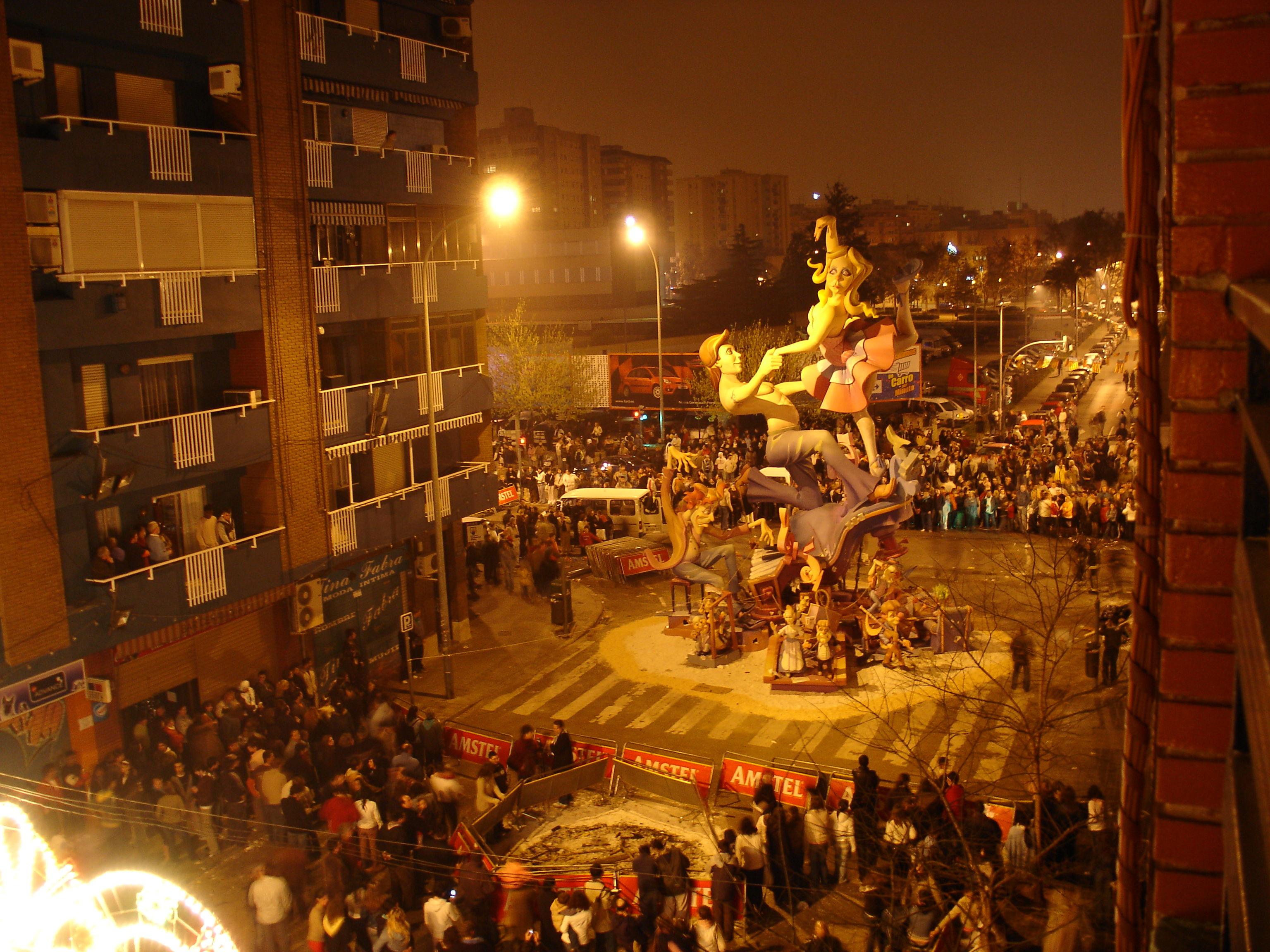 Falla Ceramista Ros, Valencia. Photo from the monument at the moments previous to the "cremà" (the monument is goint to be set in fire).